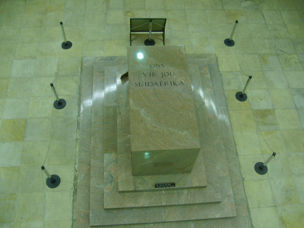 Cenotaph in the cenotaph hall of the Voortrekker Monument, Pretoria; the symbolic tomb of the Retief delegation who were massacred by order of Dingane in 1838. The inscription: We for thee South Africa